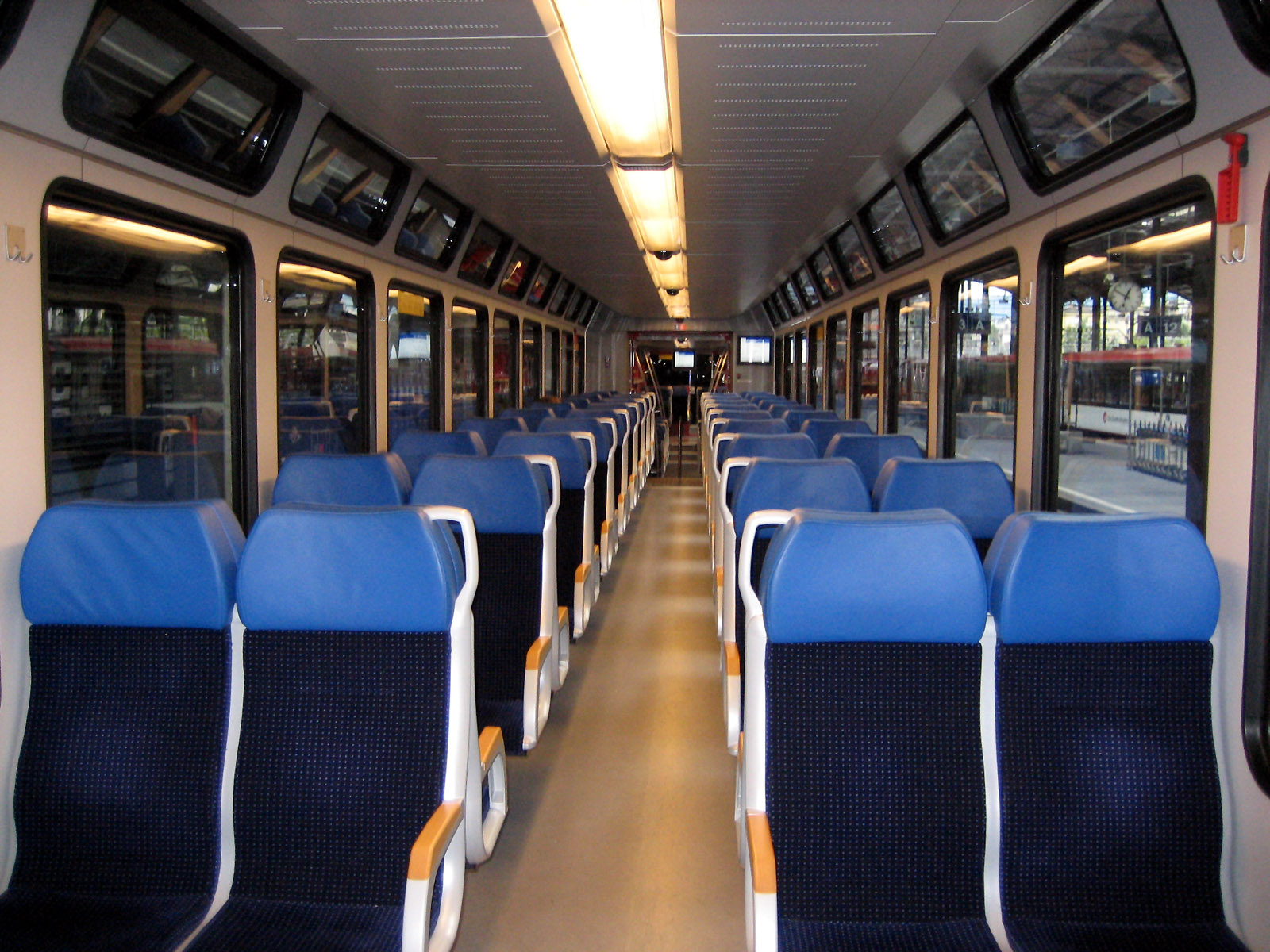 Stadler Rail SPATZ, interior, custom made train for Zentralbahn